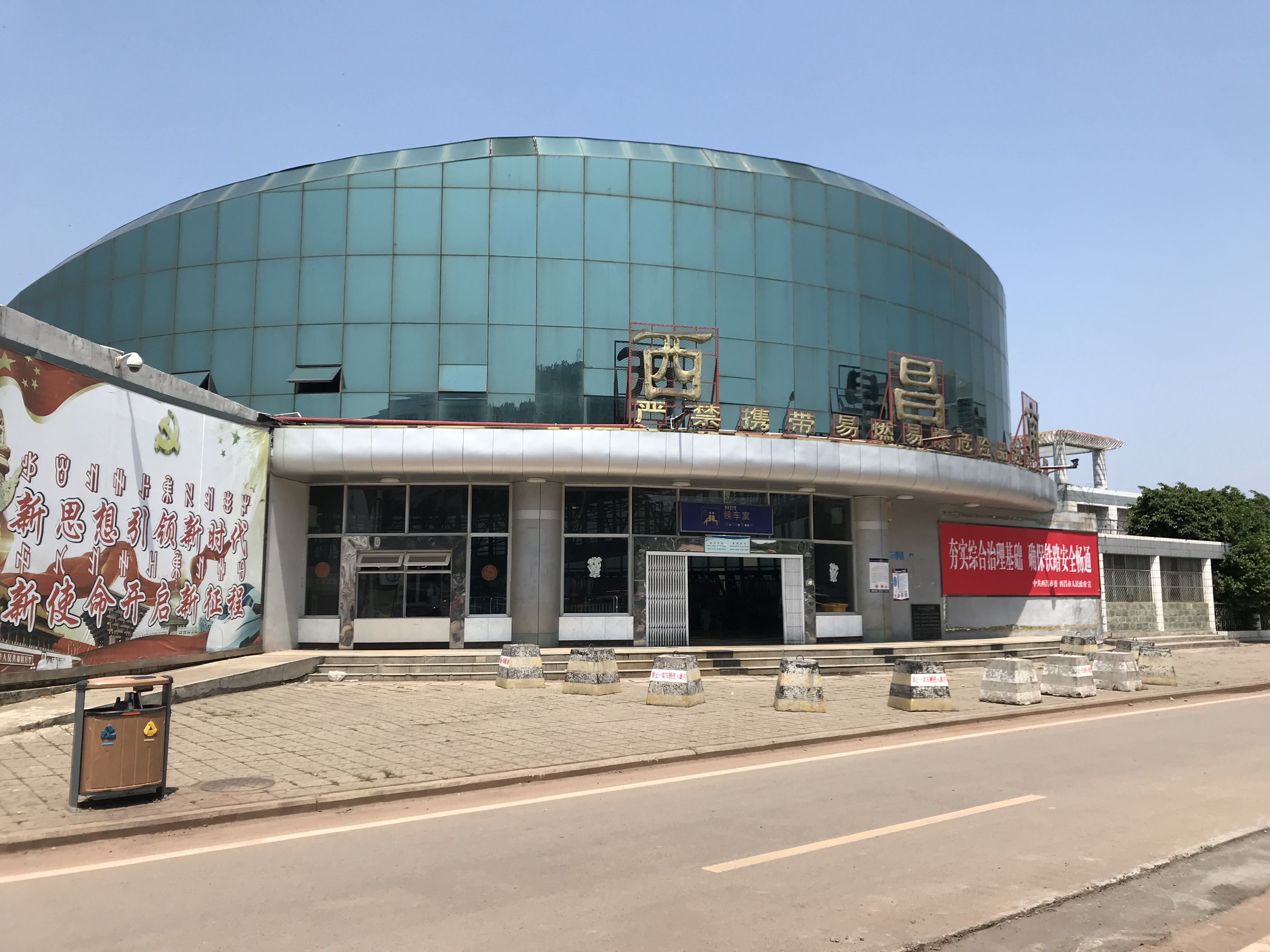 Completed in 1998 as part of the electrification construction